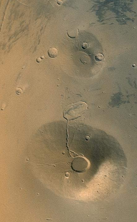 Picture of volcanoes Ceraunius Tholus and Uranius Tholus taken with Mars Global Surveyor Mars Orbiter Camera